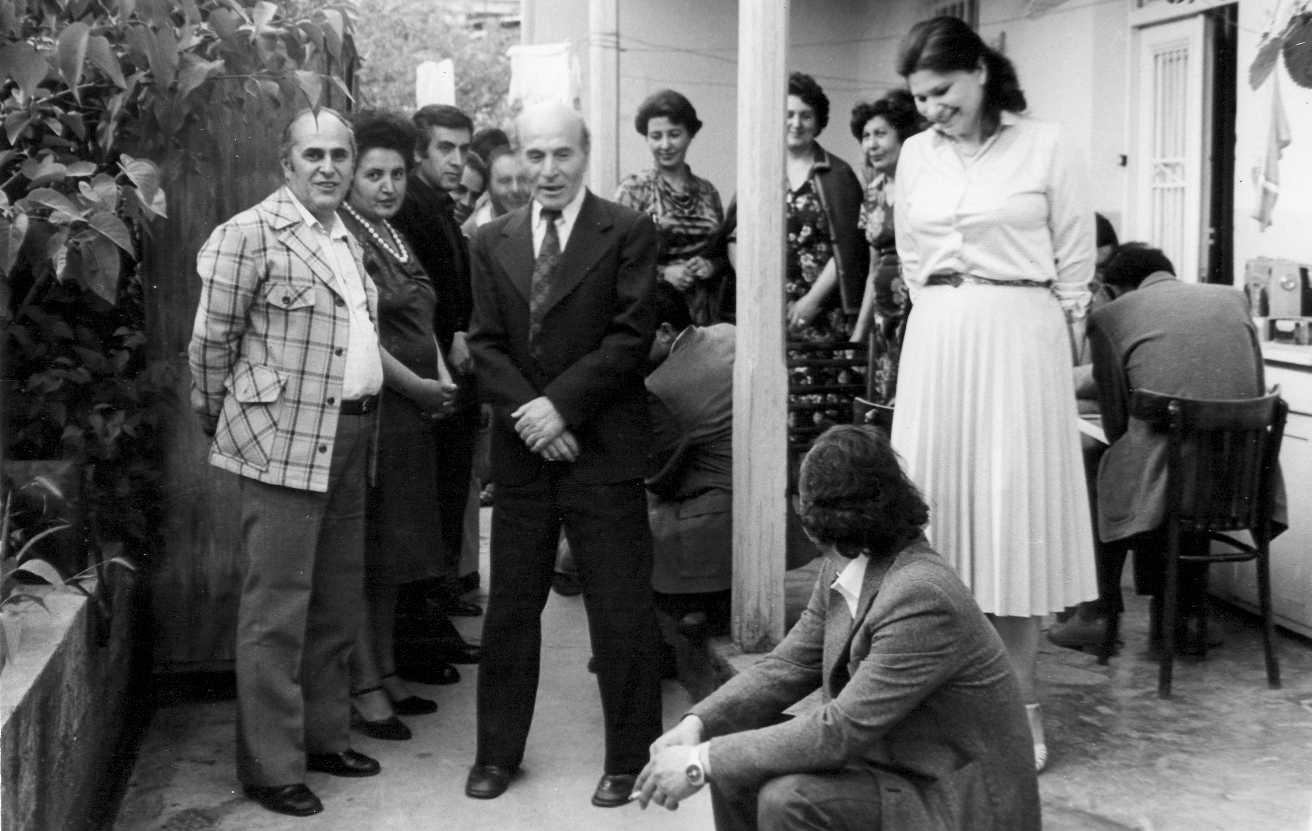 Edvard Chubaryan 75th Birthday, 05 May 2011 05, No. 56